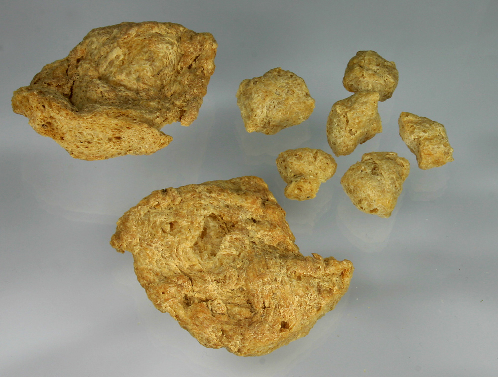 Textured soy protein, two variants